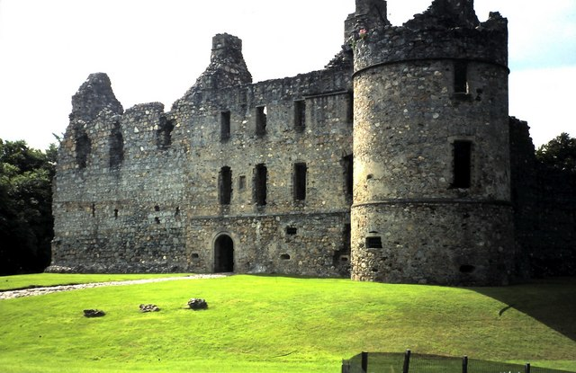 Balvenie Castle This is the massive east front of the castle which dates from the 13th century. Originally a Comyn stronghold it is well sited commanding the passes to Huntly, Keith & Cullen. Later it was owned by the Douglas family & on their downfall the king granted it to the Earl of Atholl. One curious condition was they had to provide the king with one red rose on St John the Baptists day. A century later the rent was increased to two roses! Mary Queen of Scots slept here as did Montrose in 1644.The adjacent distillery produce a 'Balvenie' malt whisky.